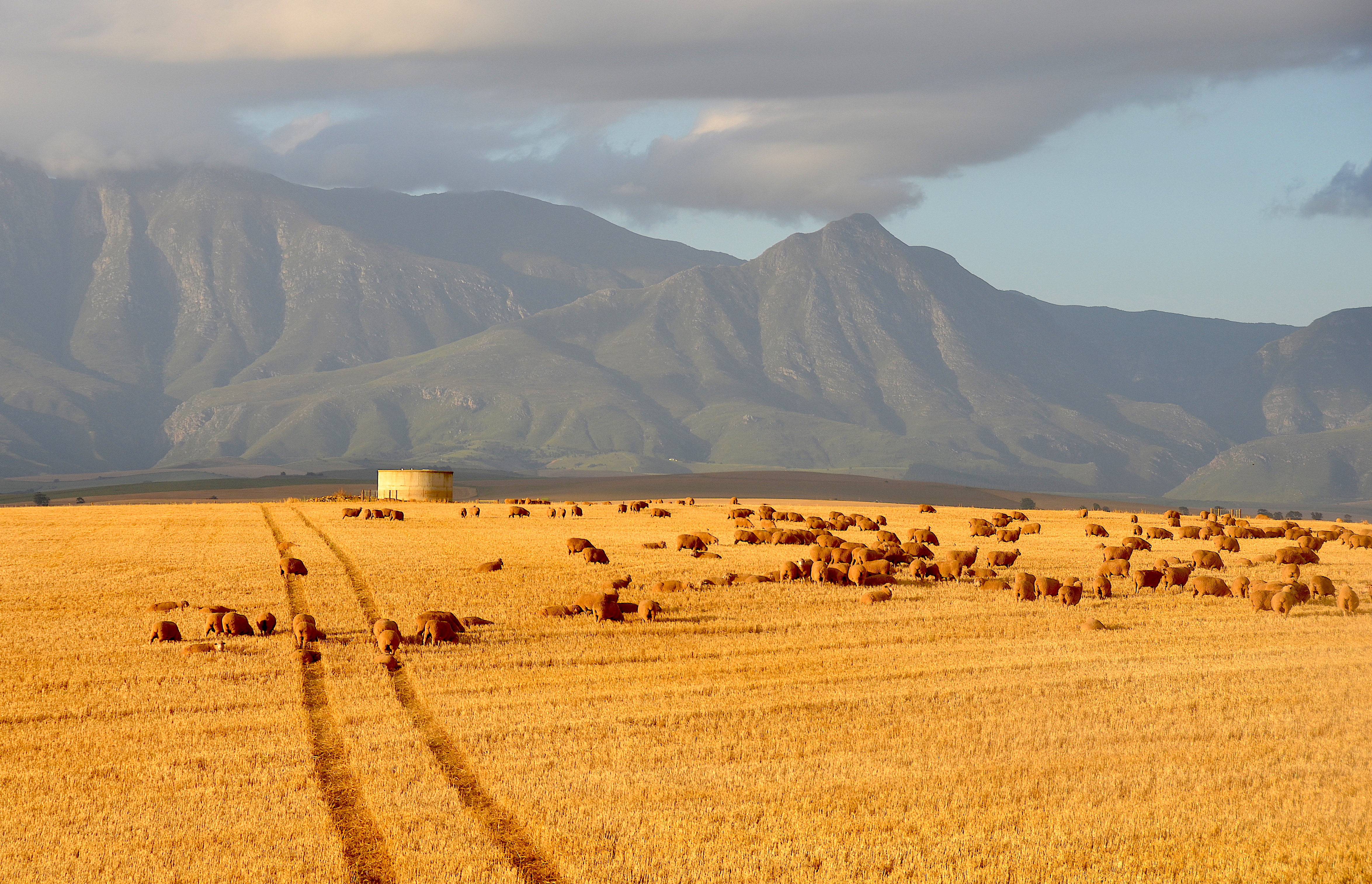 Flock of sheep in South Africa (2015)